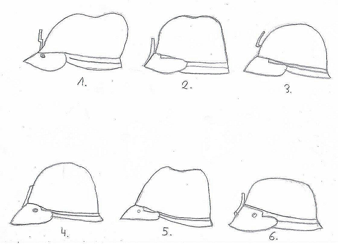 Forms of the Hoshi Kabuto, 1:Nari Akoda, 2:Goshozan, 3:Heichozan, 4:Koseizan, 5:Tenkokuzan, 6:Zenshozan